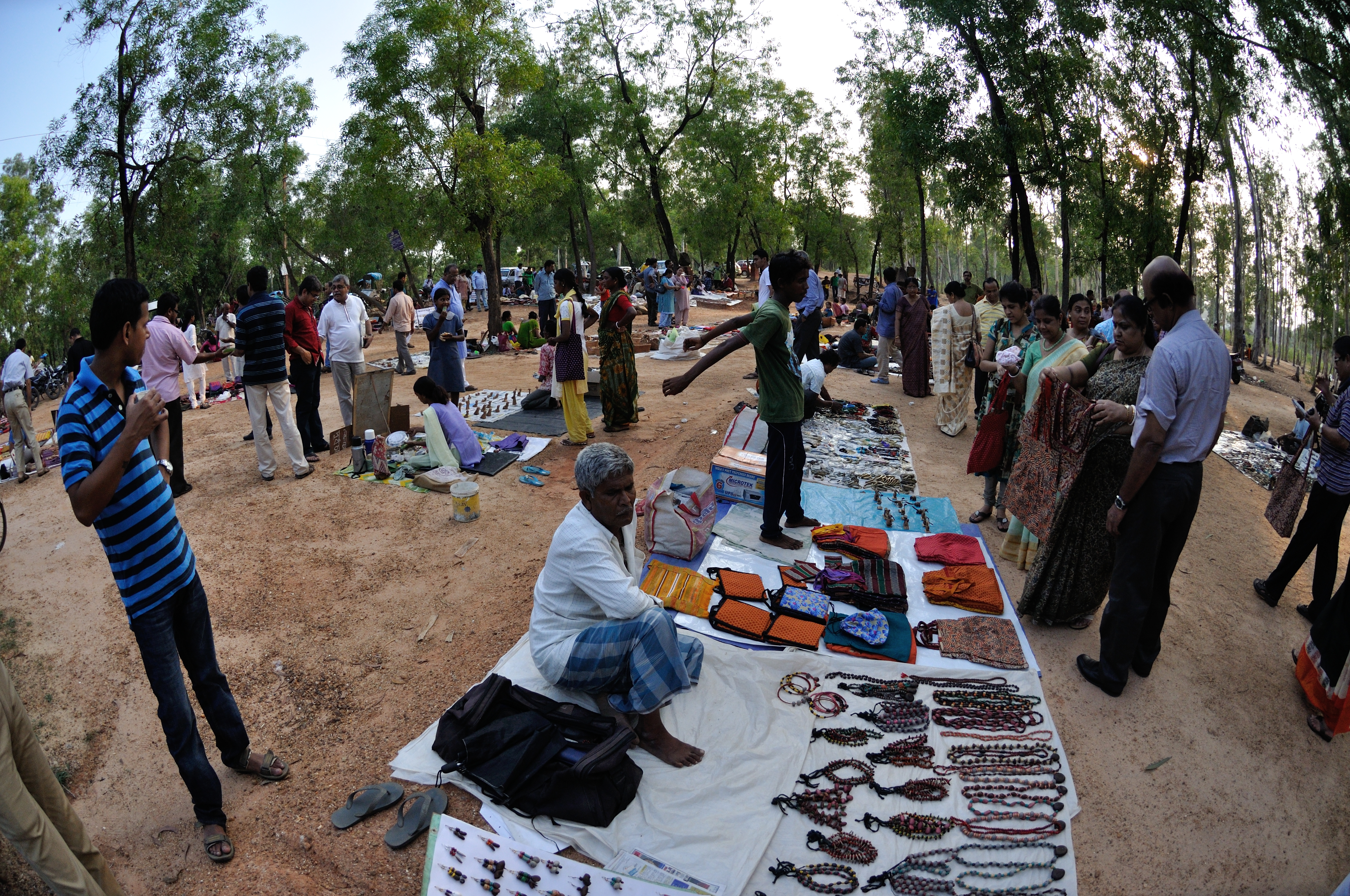 Photographed at the Sonajhuri-Khoai area. It is very near from Santiniketan and Prantik railway station, Birbhum. In every Saturday Haat ( bn: Sanibarer Haat) happen mainly with village people made ethnic decorative ornaments, house-hold materials and home-made sweets & snacks. The Baul songs are also performed by various Baul groups. The buyers are mainly come from Kolkata or other parts from West Bengal.